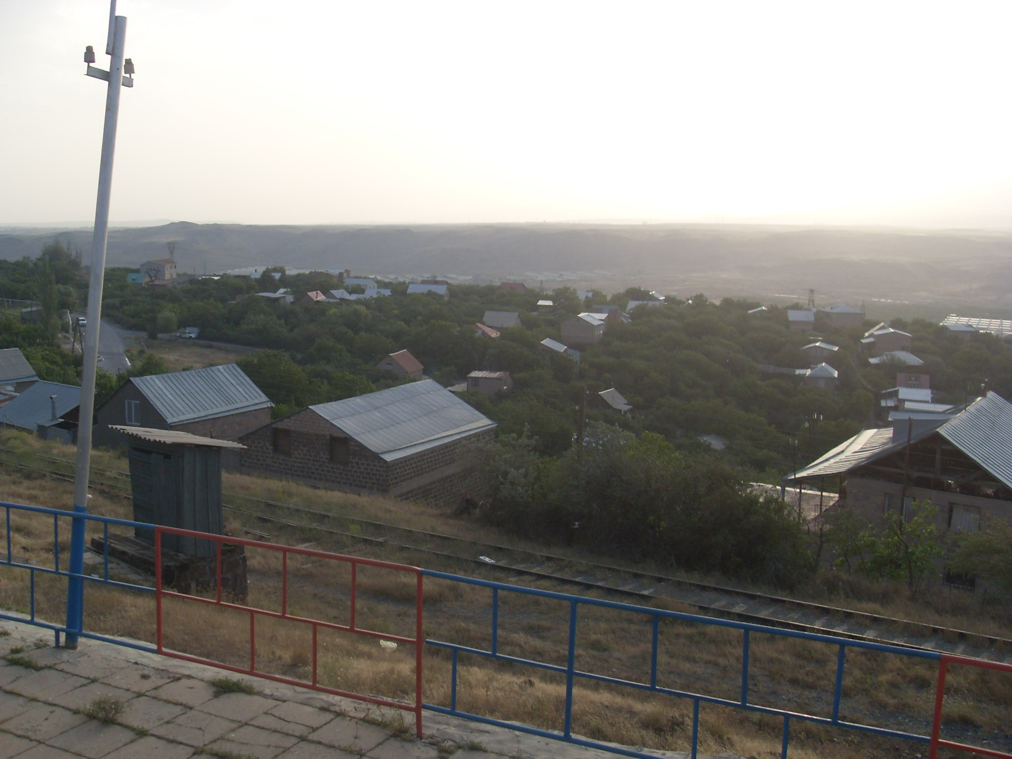 Nurnus (Armenian: Նուռնուս) is a village in the Kotayk Province of Armenia.